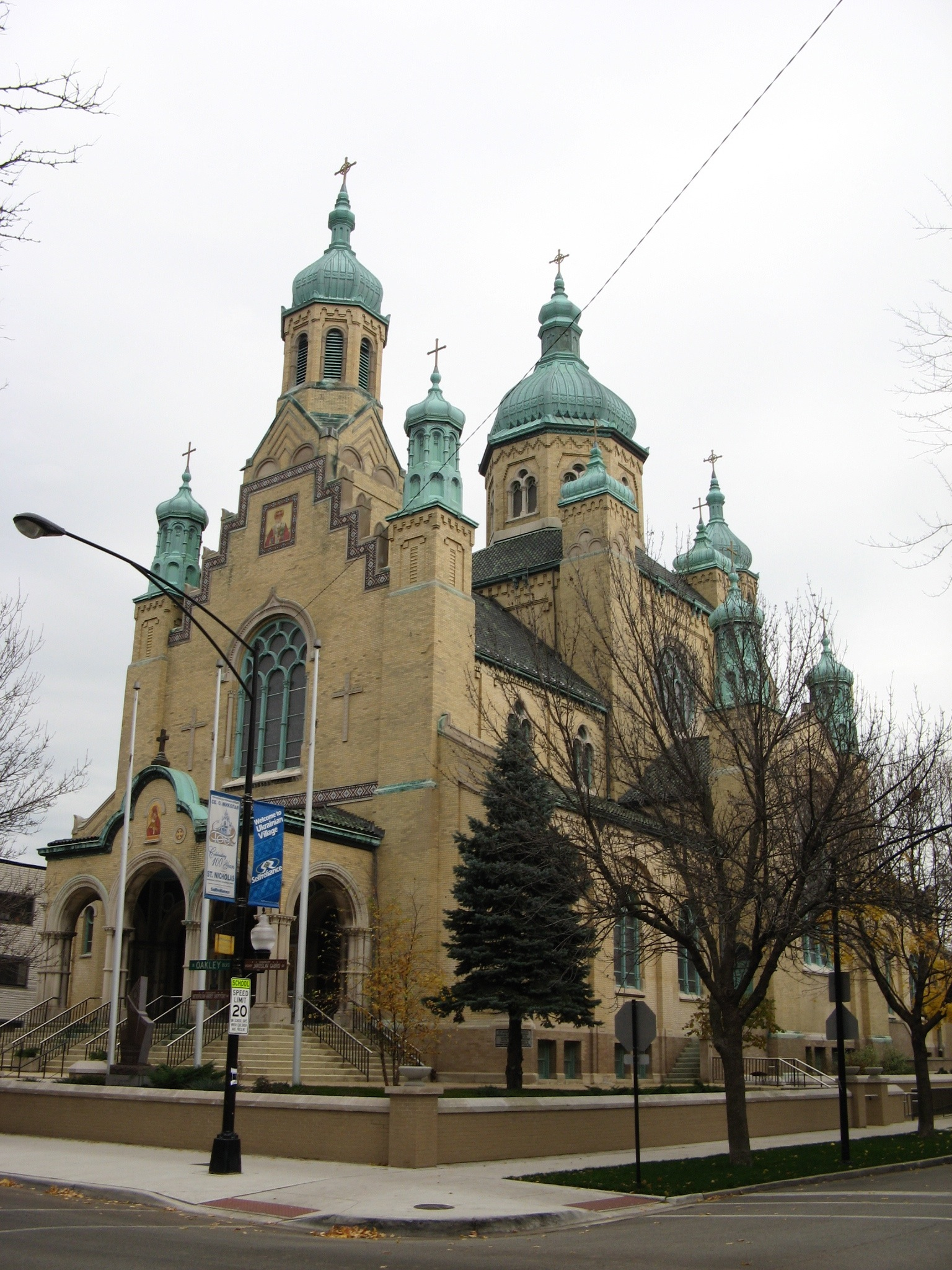 St. Nicholas Ukrainian Catholic Cathedral